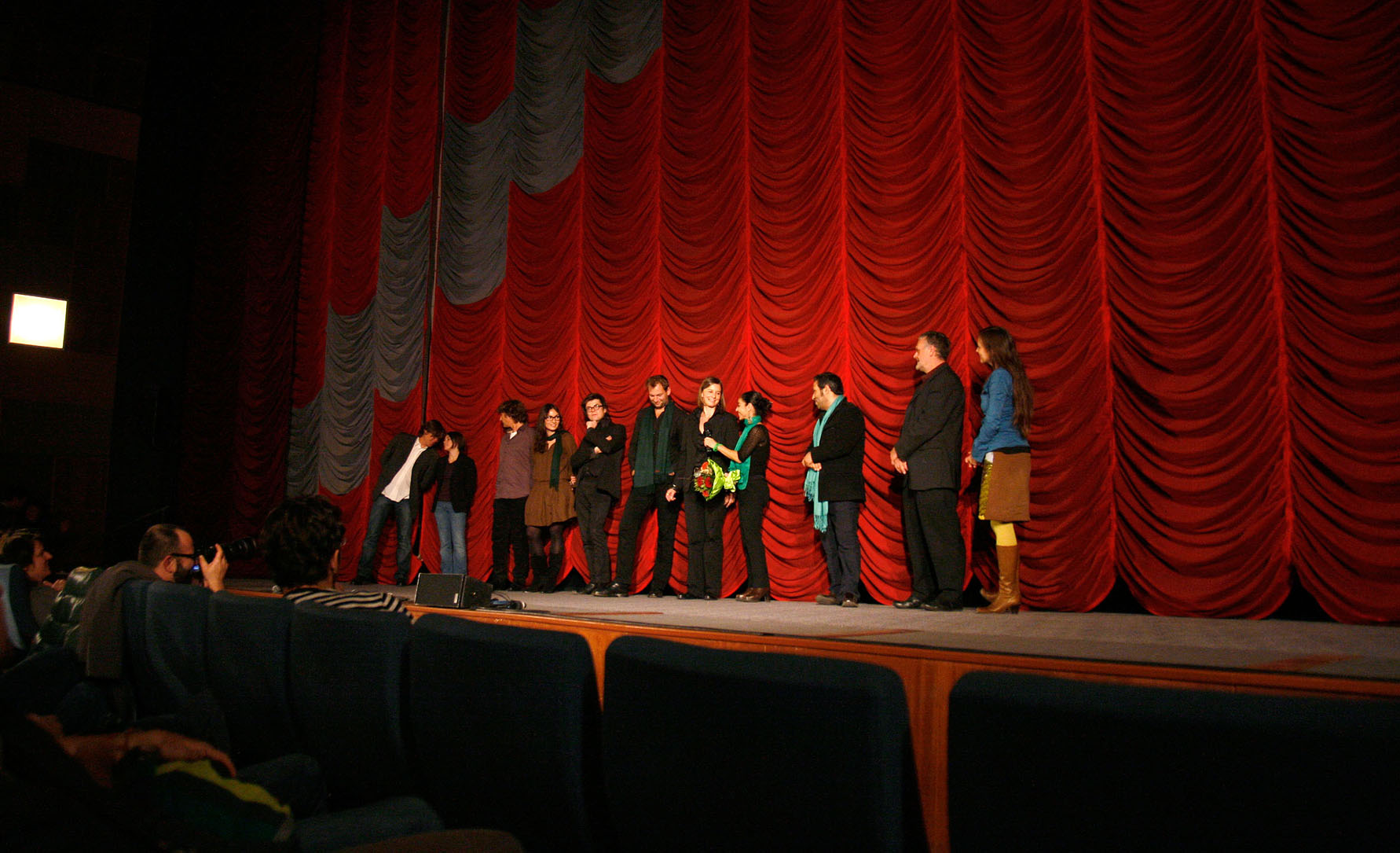 Shirin Neshat and Shoja Azari with Martin Gschlacht and other members of the film team at the screening of their movie Zanan bedun-e mardan (Women Without Men) during the Vienna International Film Festival 2009.